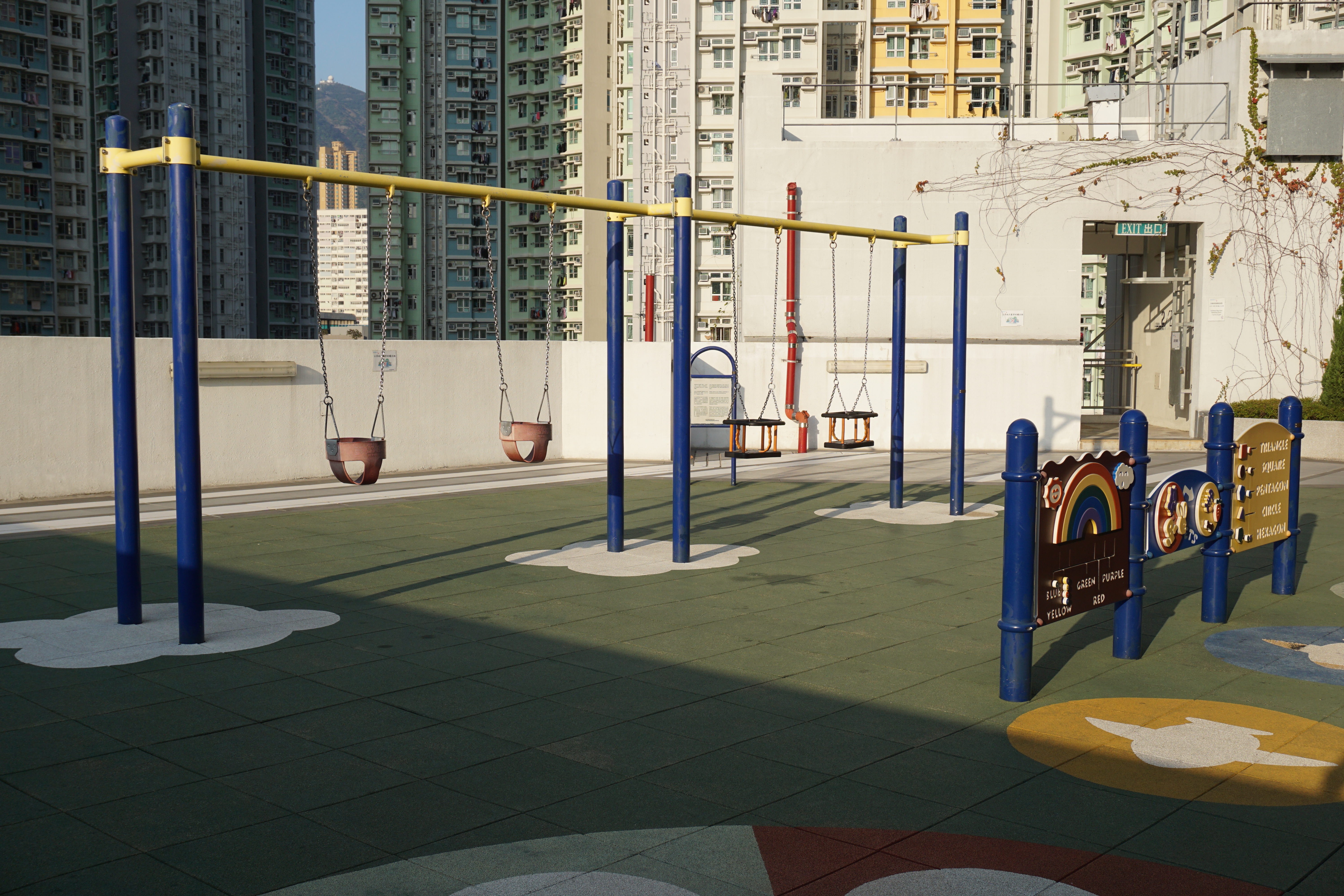 Kai Ching Estate in Kai Tak, Hong Kong.